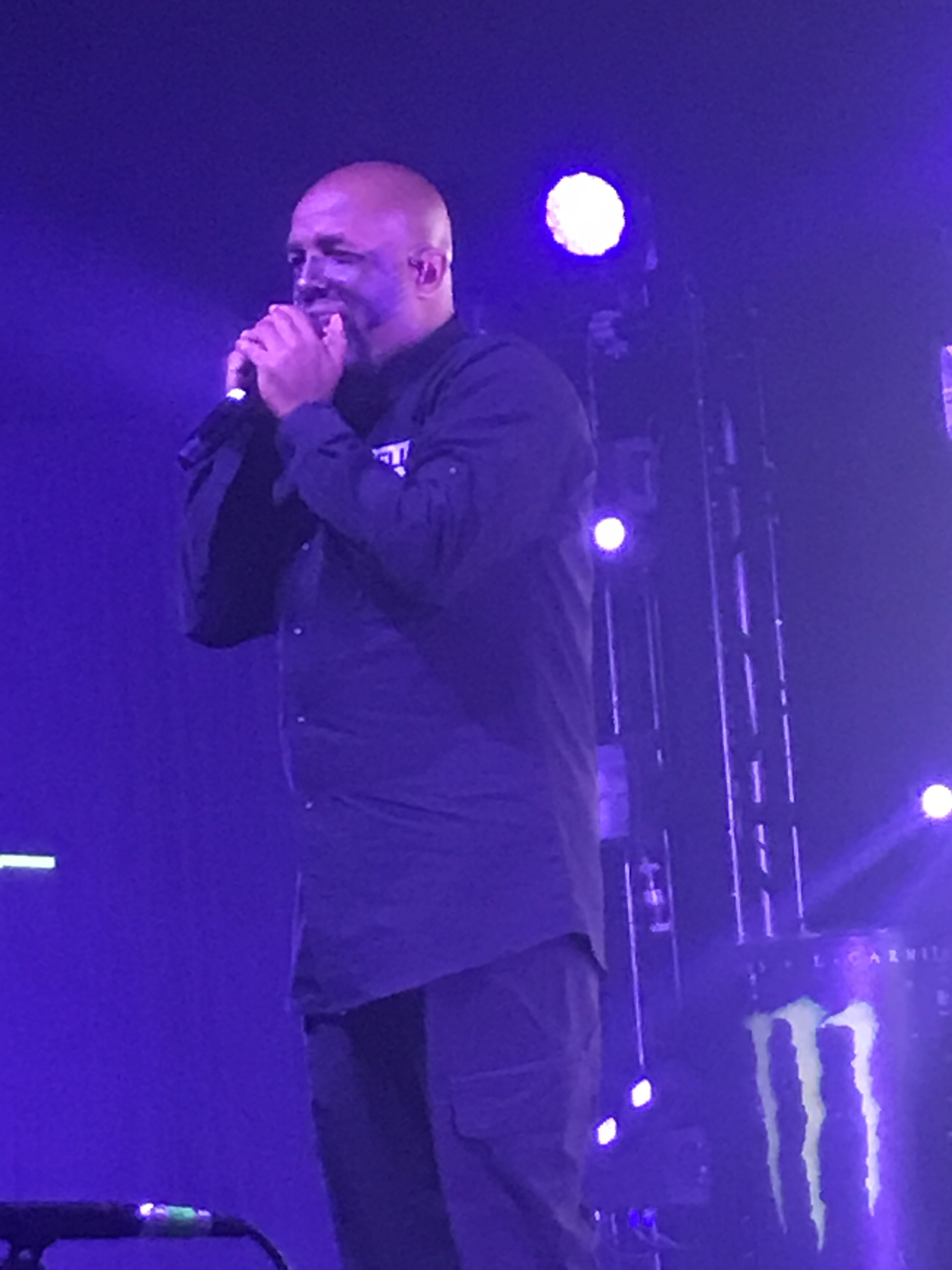 Tech N9ne, Futuristic, Dizzy Wright - Live at the Plaza Live in Orlando on November 15, 2018.